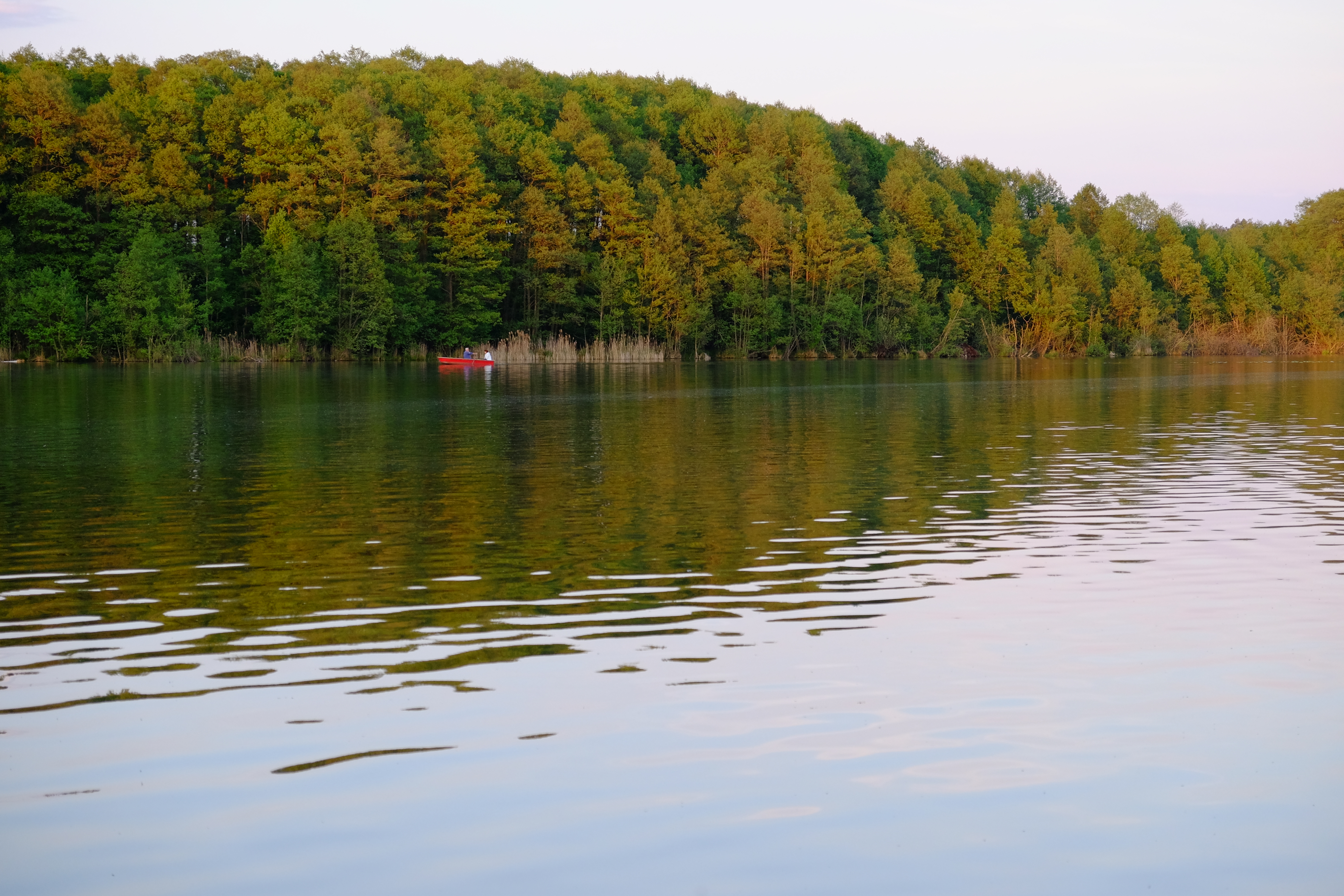 Pätzer Hintersee Nature Reserve in the state of Brandenburg, Germany.